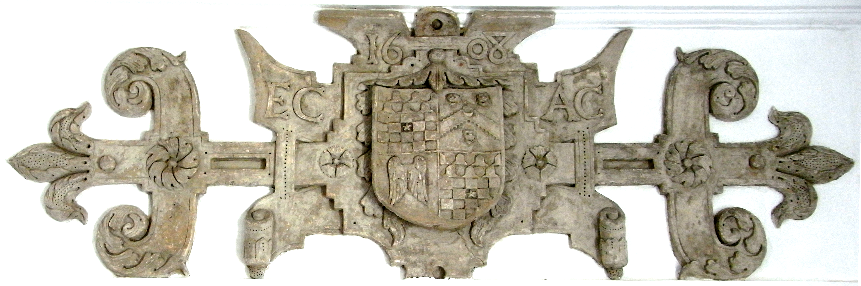 1608 strapwork plaster escutcheon of four quarters in upstairs bedroom of Ruxford Barton, near Crediton, Devon, England. Armorials 1&4: Chequy or and gules, a chief vair a mullet for difference (Chichester); 2: Argent, a chevron engrailed gules between three lion's faces azure a crescent for difference (Copleston of Eggesford); 3: Gules, a pair of wings conjoined ermine (de Reigny of Eggesford). With initials "EC" and "AC" for Edward Chichester, 1st Viscount Chichester (1568-1648) and his wife Anne Copleston (1588–1616), sole daughter and heiress of John Copleston (died 1606) of Eggesford